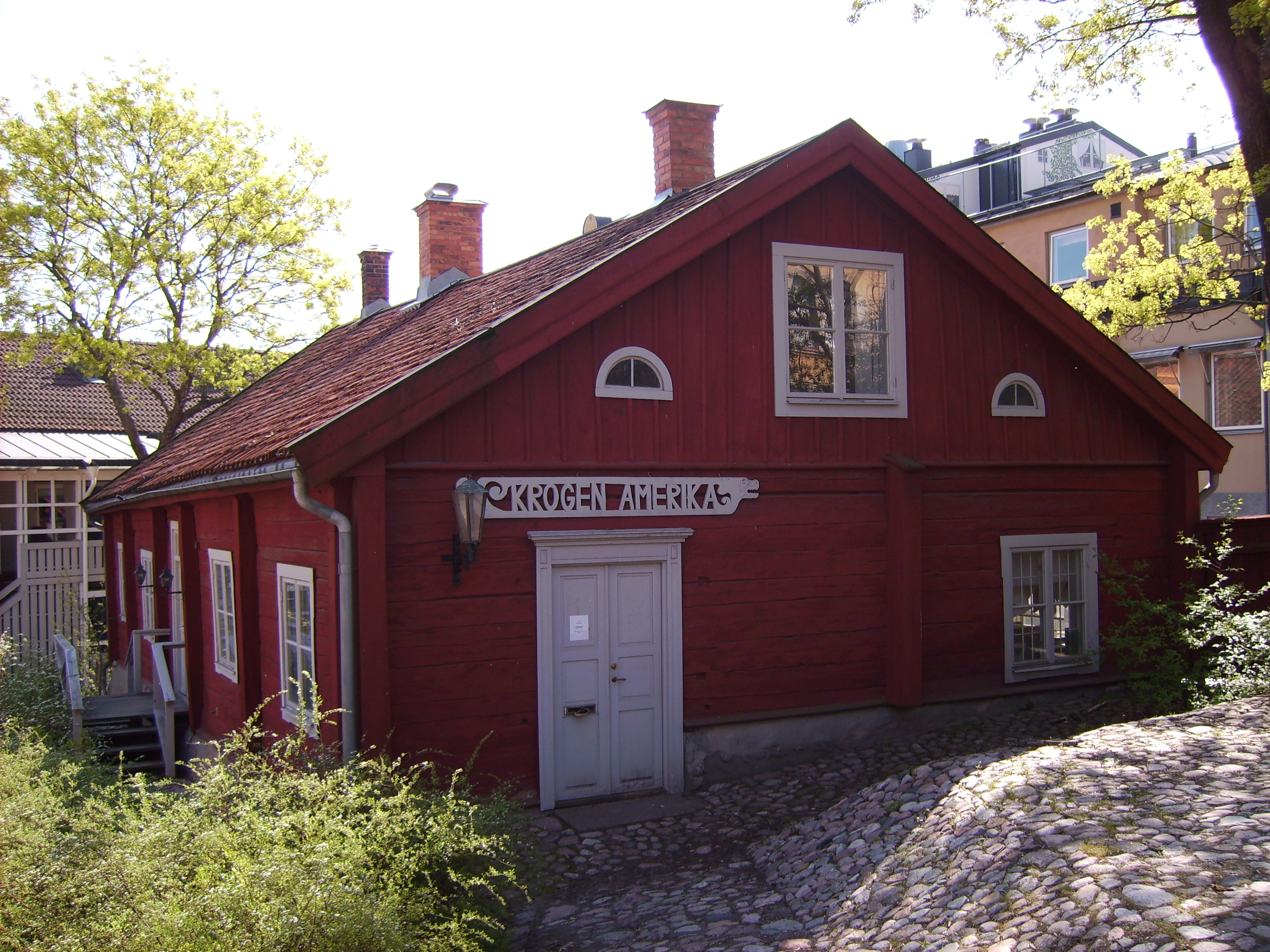 Photo by Harri Blomberg.